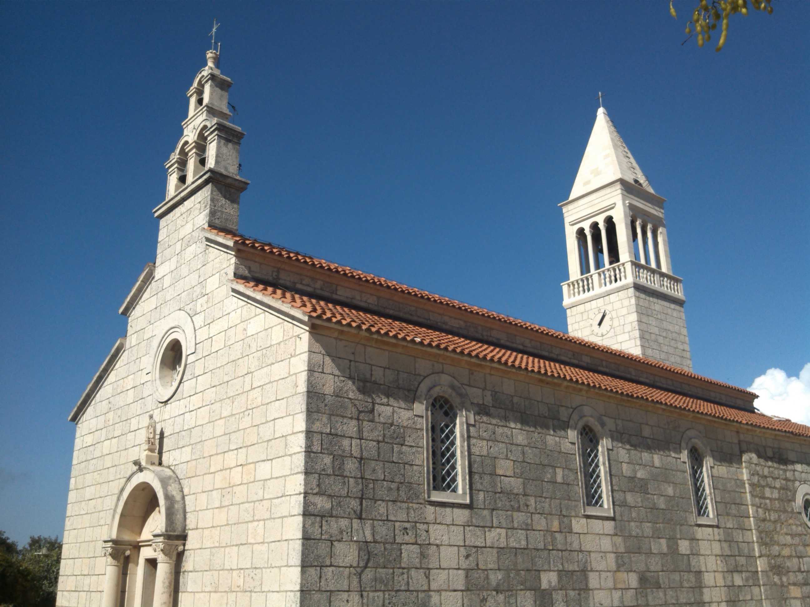 Church in Lumbarda